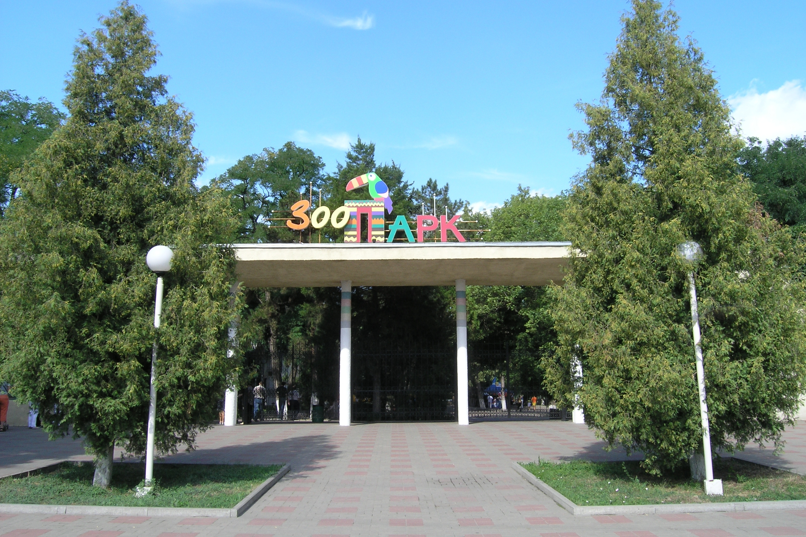 Rostov Zoo entrance